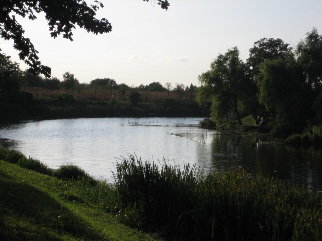 Rijeka Bosut